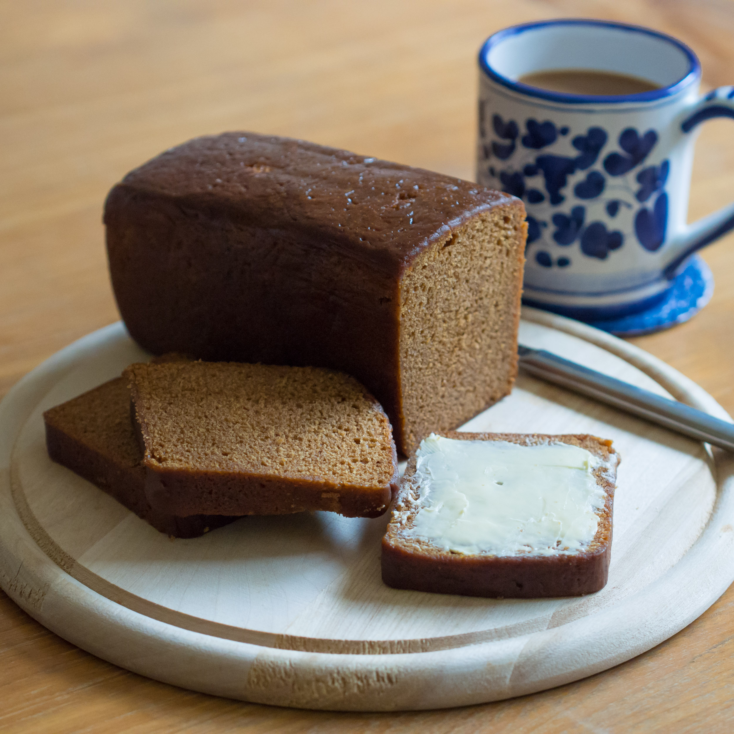 Kruidkoek', Peperkoek or Ontbijtkoek are different Dutch and Flemish names for their local variations of gingerbread/pain d'épices. It is a heavy and sweet, fairly moist and spiced, bread-like cake that is often eaten with butter, either for breakfast or as a snack with hot coffee or tea. The dough is made with rye flour, and honey or molasses. The spices used are cinnamon, cardamom, cloves, pepper, nutmeg, aniseed, coriander, and ginger.